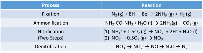 This table is a list of the processes that occur in the nitrogen cycle.